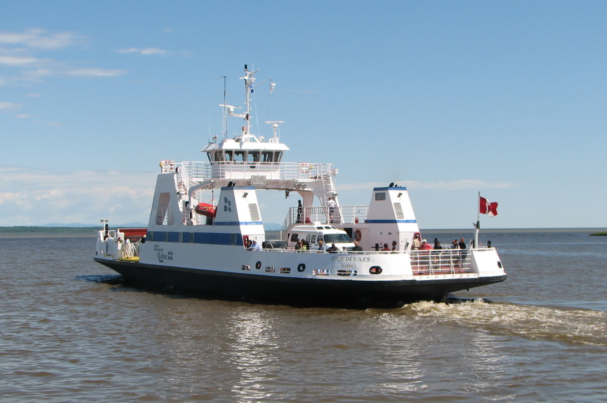 Ferry Grue-des-Iles between Montmagny and Isle-aux-Grues on the Saint Lawrence River, province of Quebec, Canada